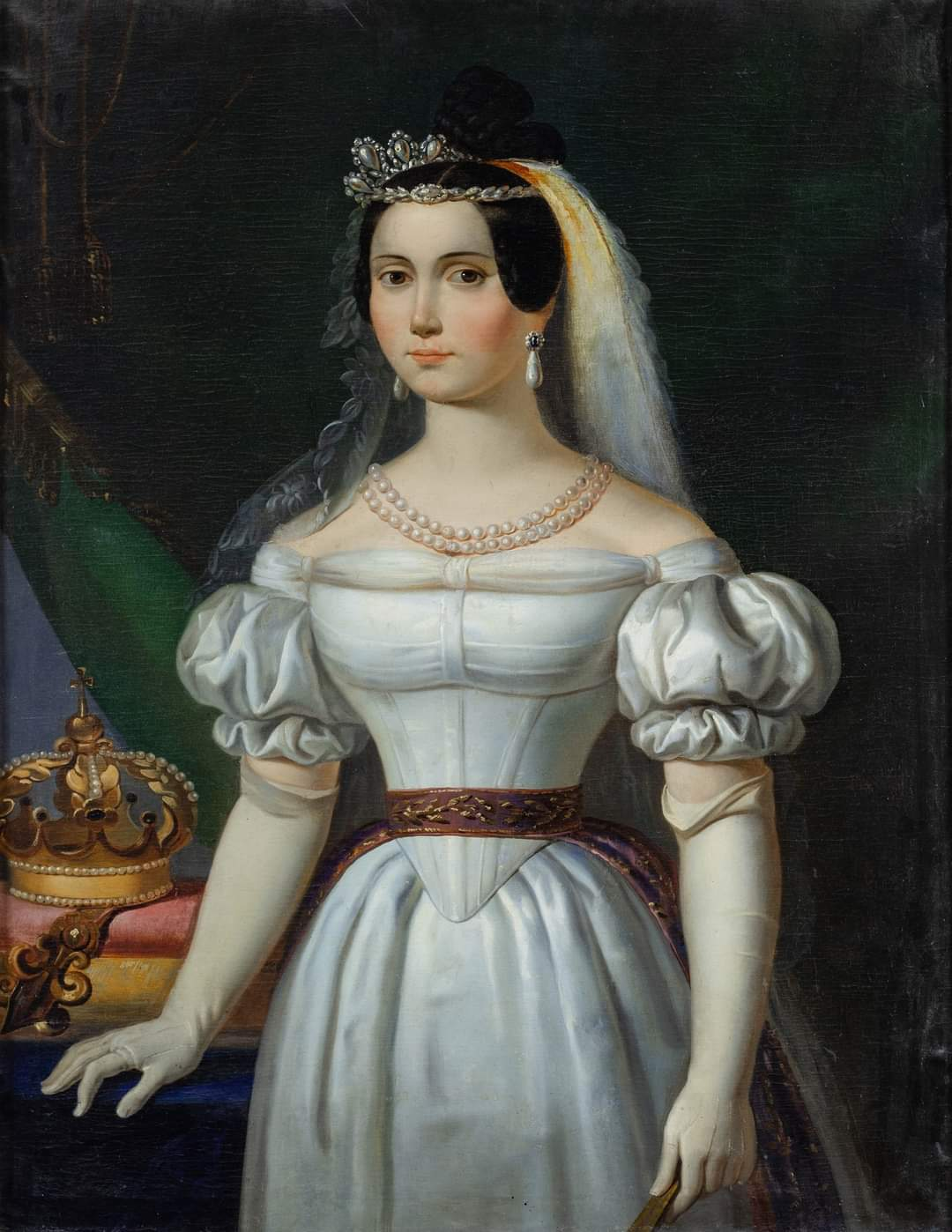 ritratto di Maria Teresa d'Austria